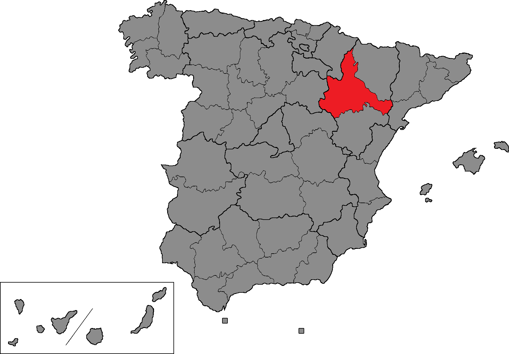 Spanish Congress of Deputies district of Zaragoza.